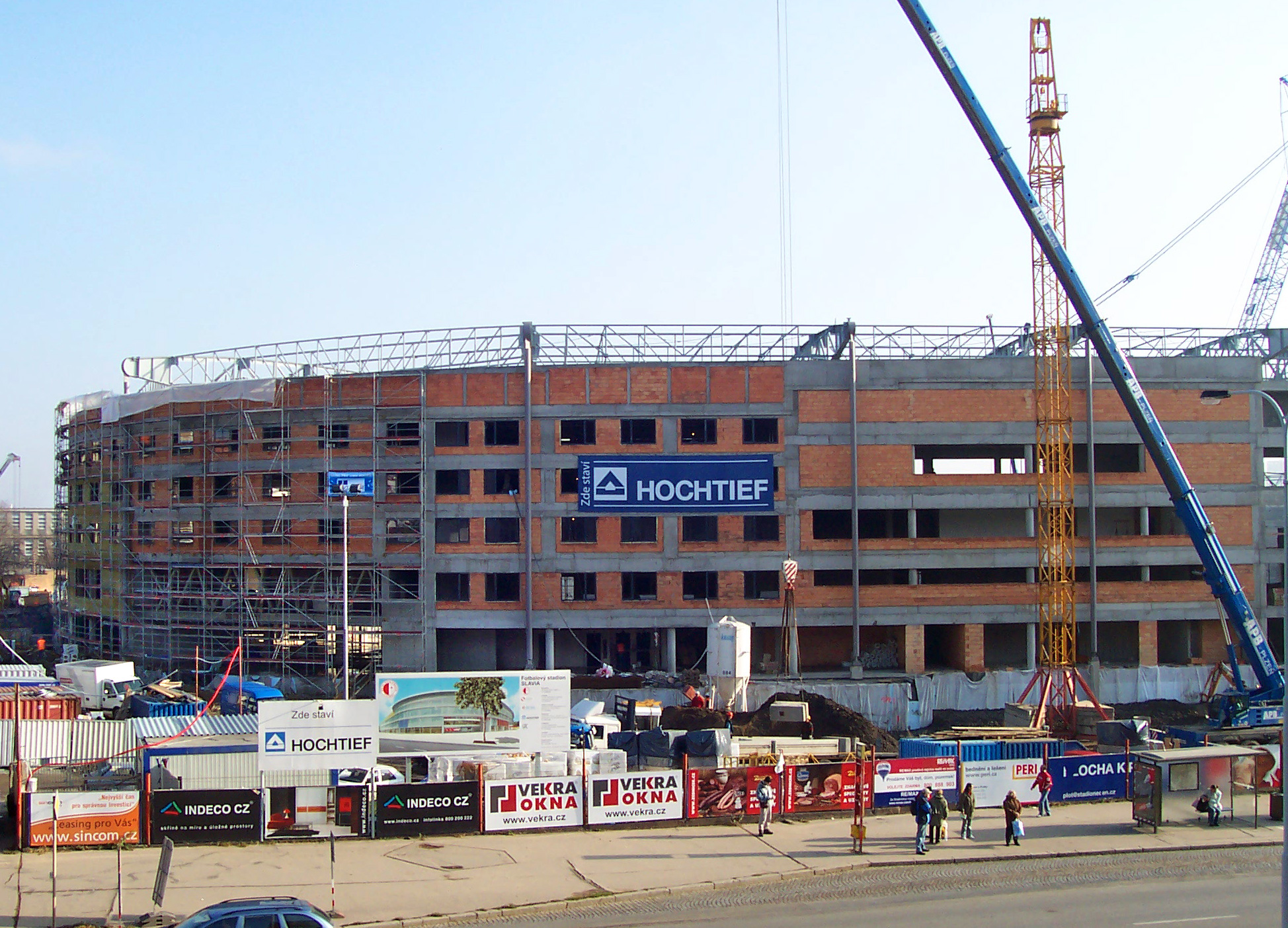 Eden soccer stadium, stage two. Prague